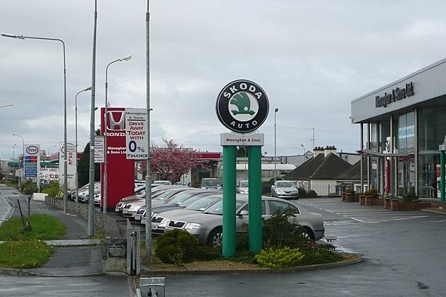 Tuam Road, Galway Tuam Road, north of the ring road, is the place to find the car dealerships, particularly if you want a Honda or Skoda.